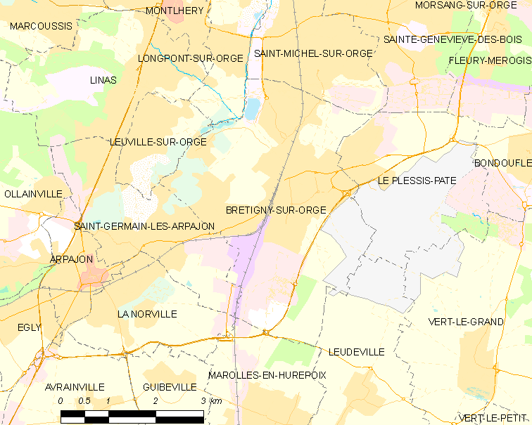 Map of French municipality Brétigny-sur-Orge